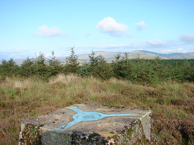 Line of sight to Plynlimon A 'surveyors eye view' from the secondary trig point at Banc y Garn, looking towards the primary triangulation station on Plynlimon which is some 5½ miles away. When carrying out triangulation work, many observations were made at night with a light illuminating the target station. From 1957, the micro-wave radio distance measuring "Tellurometer" was introduced for recording distances between stations. At this location, the surrounding forestry doesn't quite obscure the view of Plynlimon but it was often the case that no line of sight was available from ground stations because of the growth of forestry or because of other obstructions. In this situation, portable steel towers were constructed over the ground station. Observations from towers had their own problems. The towers flexed in even moderate winds so observations could not be carried out in windy conditions. In hot weather, the steel expanded and this could affect the observed results so the work was done as quickly as possible to minimise errors.